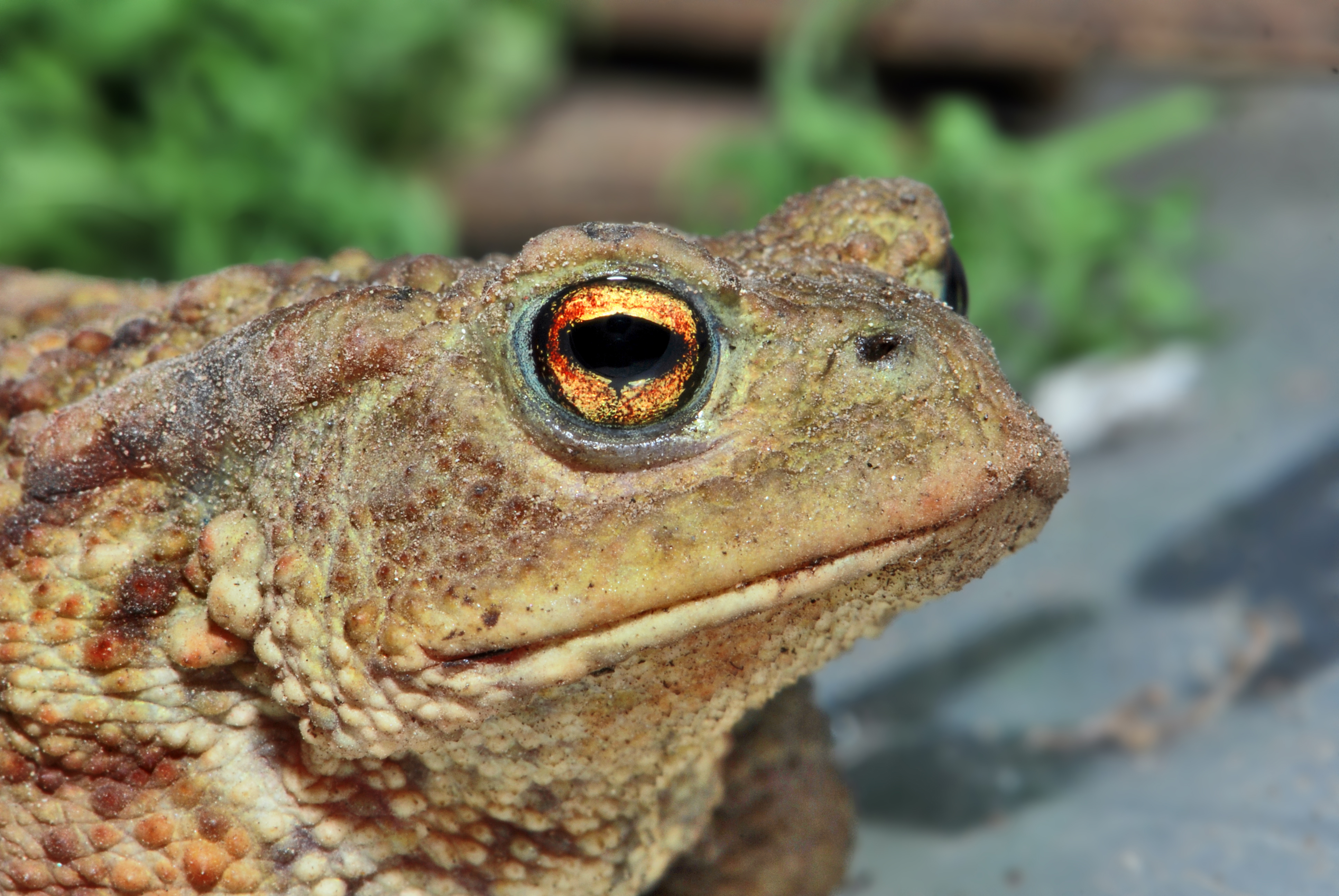 The common toad (Bufo bufo) or European toad is widespread throughout Europe, with the exception of Ireland and some Mediterranean islands. Its easterly range extends to Irkutsk in Siberia and its southerly range includes parts of northwestern Africa in the northern mountains of Morocco, Algeria, and Tunisia.